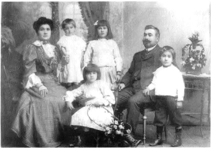 A family photo dating from first half of XX century